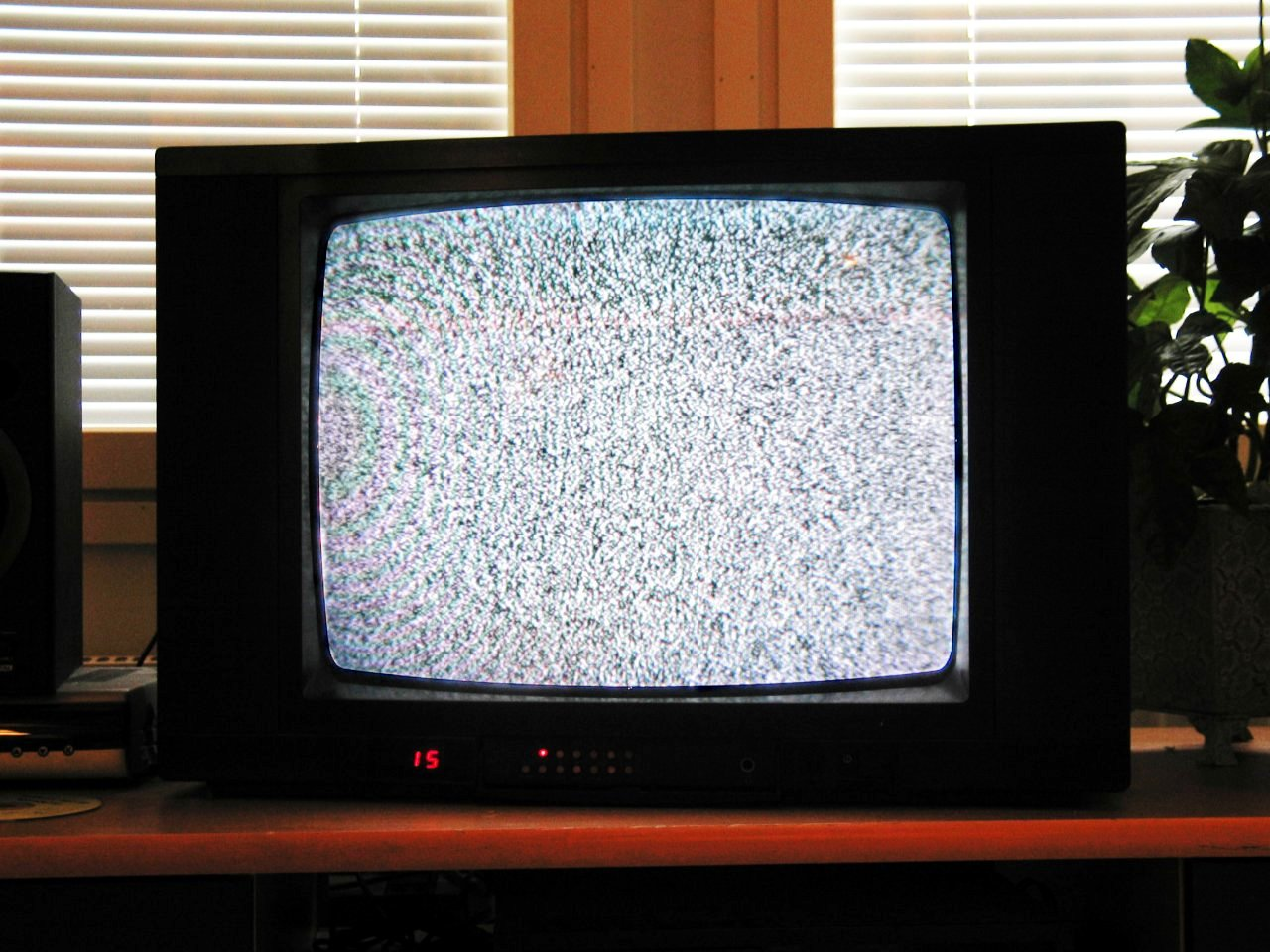 An analog TV showing noise, on a channel with no transmission.